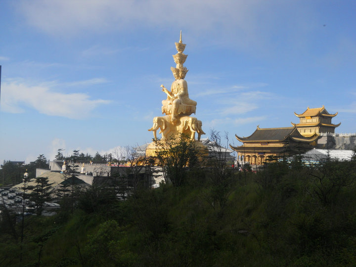 Taken in july or august 2010. I sadly lost the originals and Facebook deleted the Exif. It's taken with a Coolpix, on a three days climb of the wonderful Mount Emei